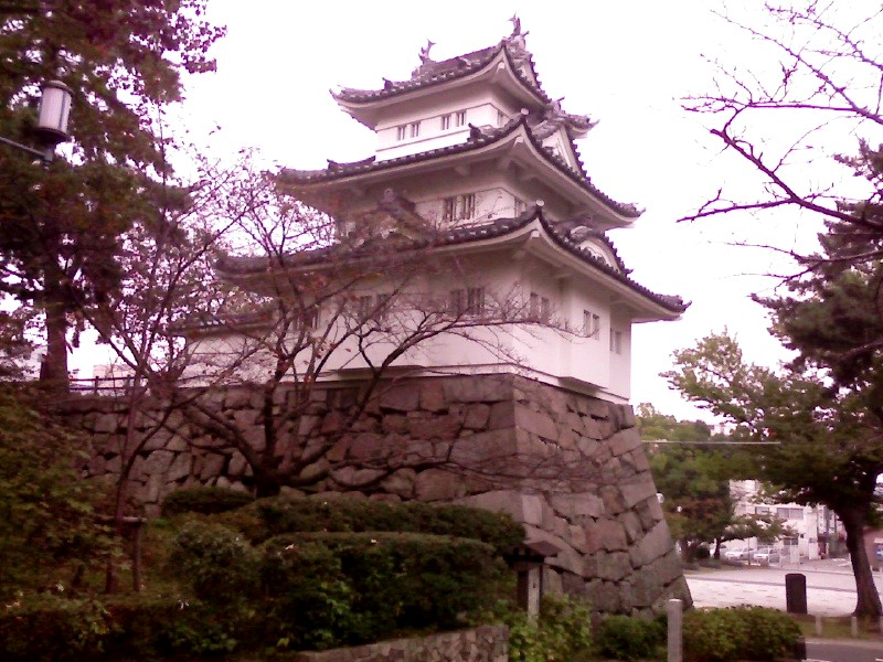 restored portion of Tsu Castle in Tsu, Mie, Japan